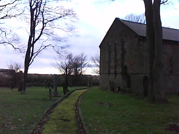 The disused Church of St Mary the Virgin, Woodhorn, photographed in December 2008